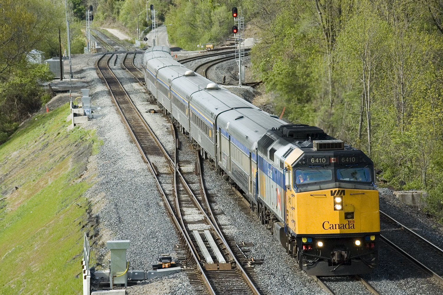 VIA Rail train hauled by a F40PH at Bayview Jct., Ontario, Canada.